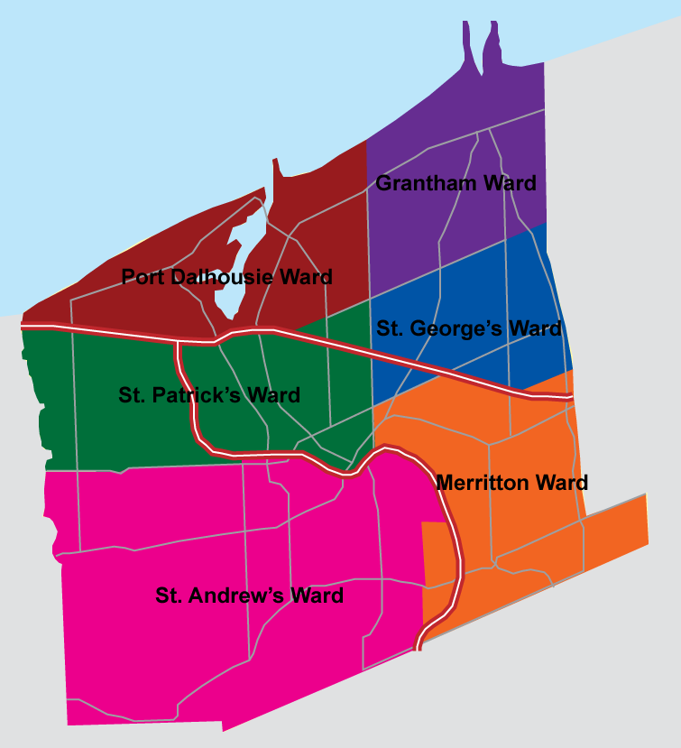 author: User:Snickerdo Map of the Wards in St. Catharines, Ontario Source: moved from en